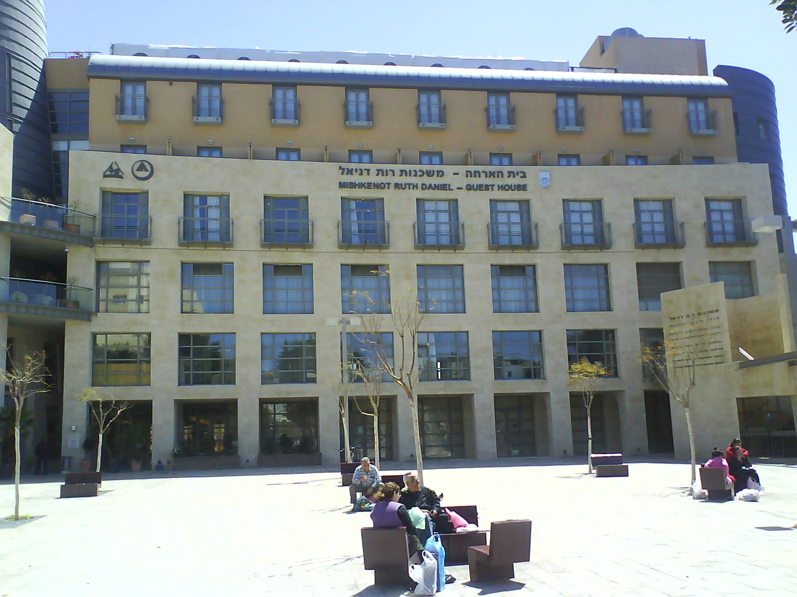 Mishkenot Ruth Daniel, Yaffo